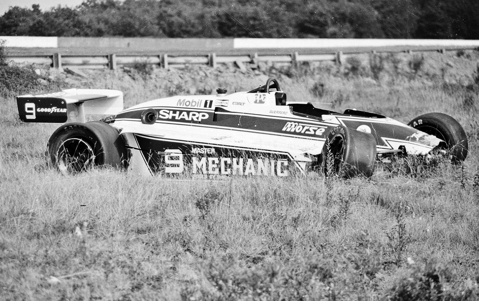 Crashed 1984 IndyCar for Roberto Guerrero at Pocono. Photo by Ted Van Pelt with Creative Commons License.